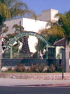 Front gate of the Prospect Studios, at the northeast corner of Prospect and Talmadge Avenues in the Loz Feliz/Franklin Hils neighborhood of Los Angeles